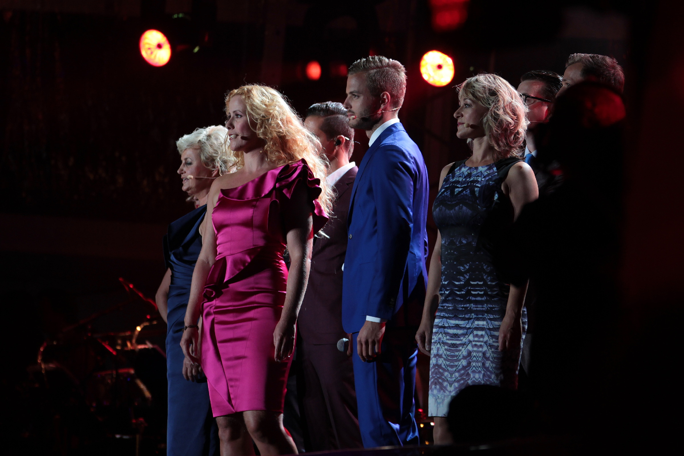 The cast of Hartsvrienden (Blood Brothers) during the musical sing-a-long at Uitmarkt 2014. (Maaike Boerdam, Jim Bakkum, Vera Man, Guido Spek, Yes-R)